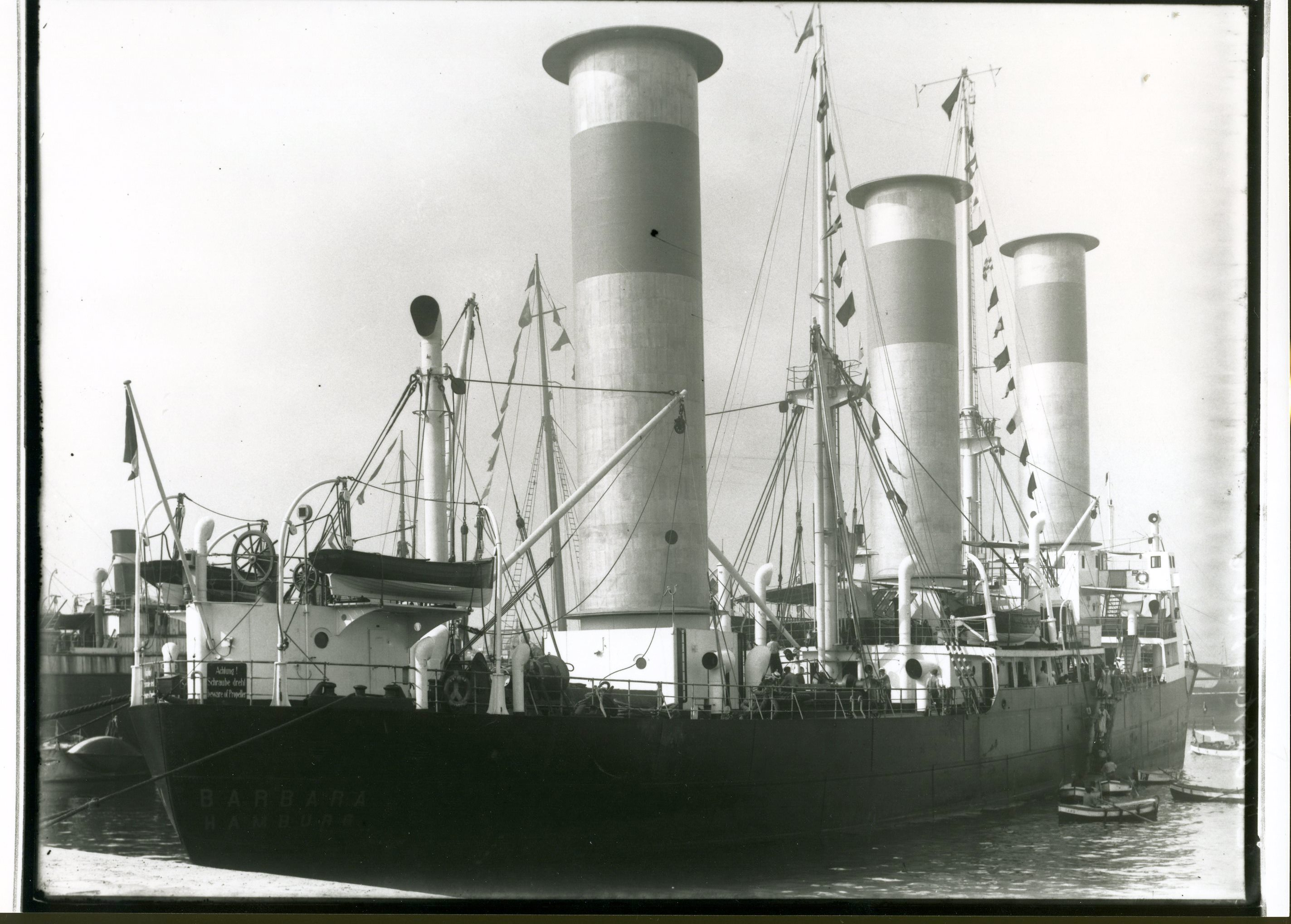 The rotorship "Barbara" in the city of Barcelona (Catalonia) in 1926. The photograph was taken with the ship anchored at the "Indústria's" dockyard, at "Moll Nou" (the New Dock). The perspective shows us the starboard side of the ship.